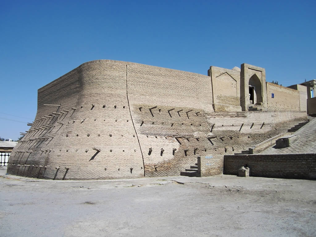 The notorious Zindon prison at Bukhara, Uzbekistan, where British officers Stoddart and Conolly were held in the "bug pit" until their public execution outide the Ark in 1842.